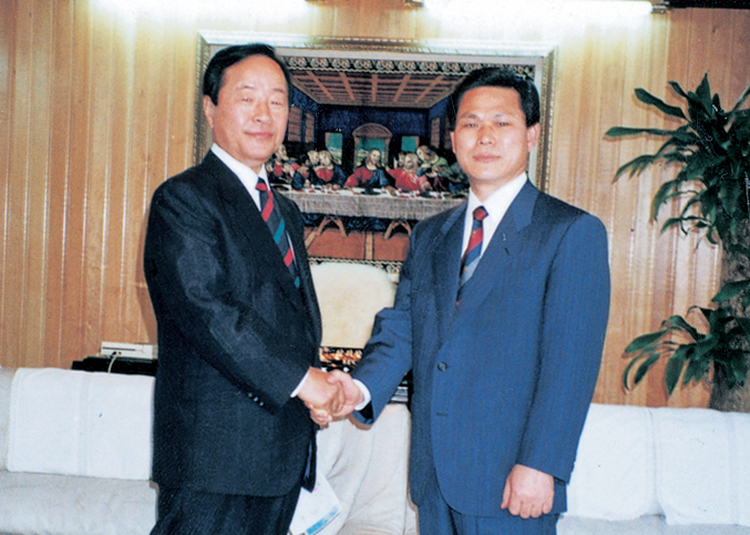 Kim Young-sam meets with Rev. Dr. Jaerock Lee at Manmin Central Church